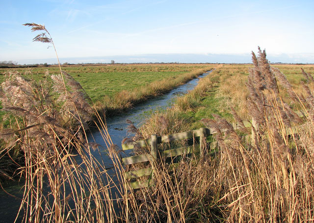 The Upton Marshes Upton Broad and Marshes - in the care of the Norfolk Wildlife Trust - is undergoing a major restoration programme, drawing together several acquired parcels of land so that they can be managed as one new large area. This is believed to take many years. The area consists of 300 hectares of open water, fen, reed beds, carr, woodland, grazing marshes and arable land, and most of the site is nationally and internationally recognised for its rich assemblage of wetland habitats and species.